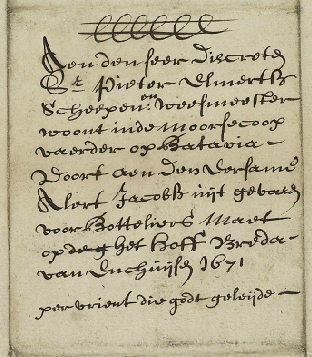 Envelope of a letter to Alert Jacobsz. (sent to Pieter Elmertsz), 1671. Part of the Collection Dutch Sea Mail (Prize Papers / Sailing Letters) (National Archive Kew). Archive: Admiralty Court. Loot of a hijacked ship during the Anglo-Dutch Wars.